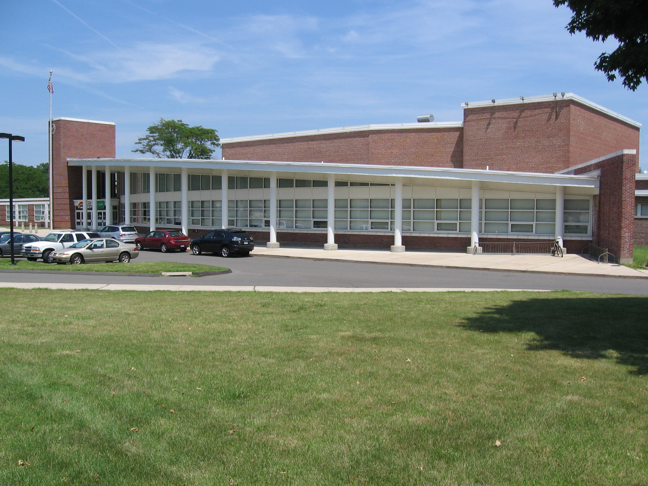 Saxe Middle School, a public school in New Canaan, Connecticut, front of building. Note that the current Saxe Junior High used to be the High School before the new one was built across the street.